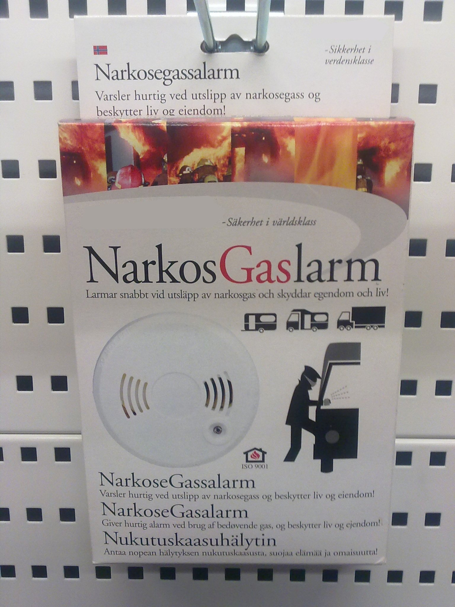 Retail box of an Sleeping gas alarm with company name and logo removed as suggested in #wikipedia-en to make it copy-leftable